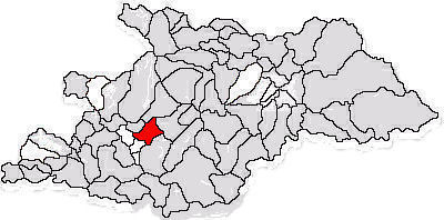 Map of Dumbrăviţa commune in Maramureş